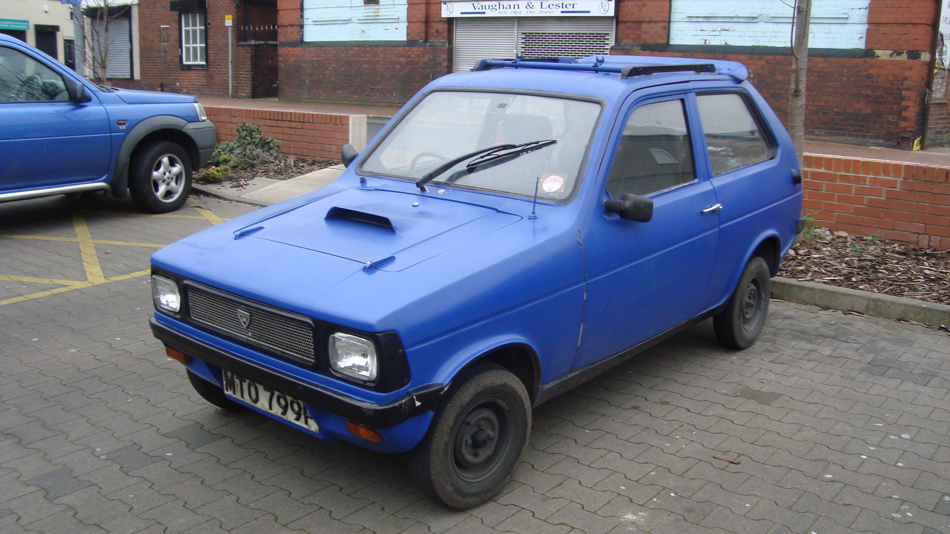 Bizarre this, I thought only Robins had this back end